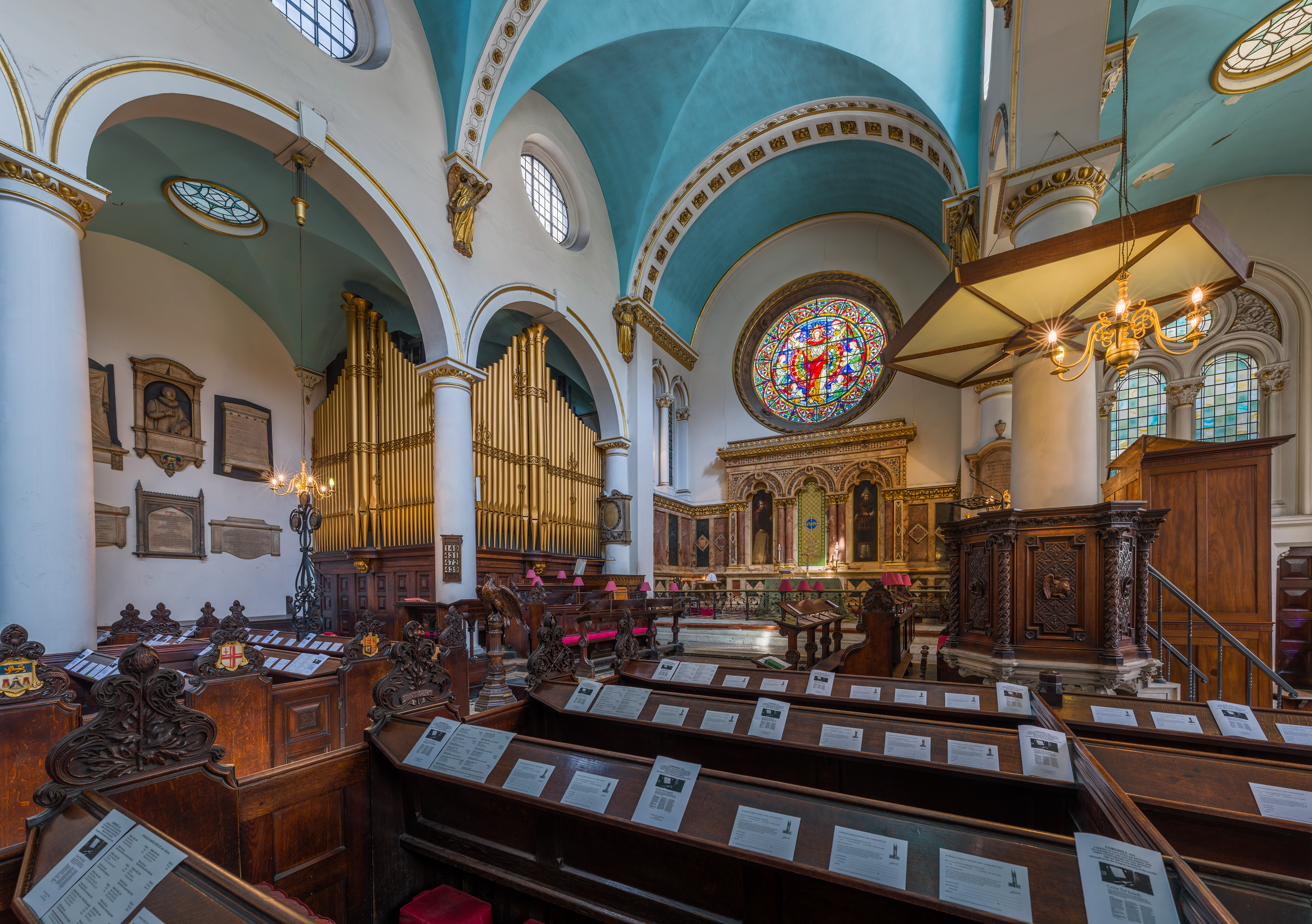 The interior of St Michael, Cornhill in London, England.